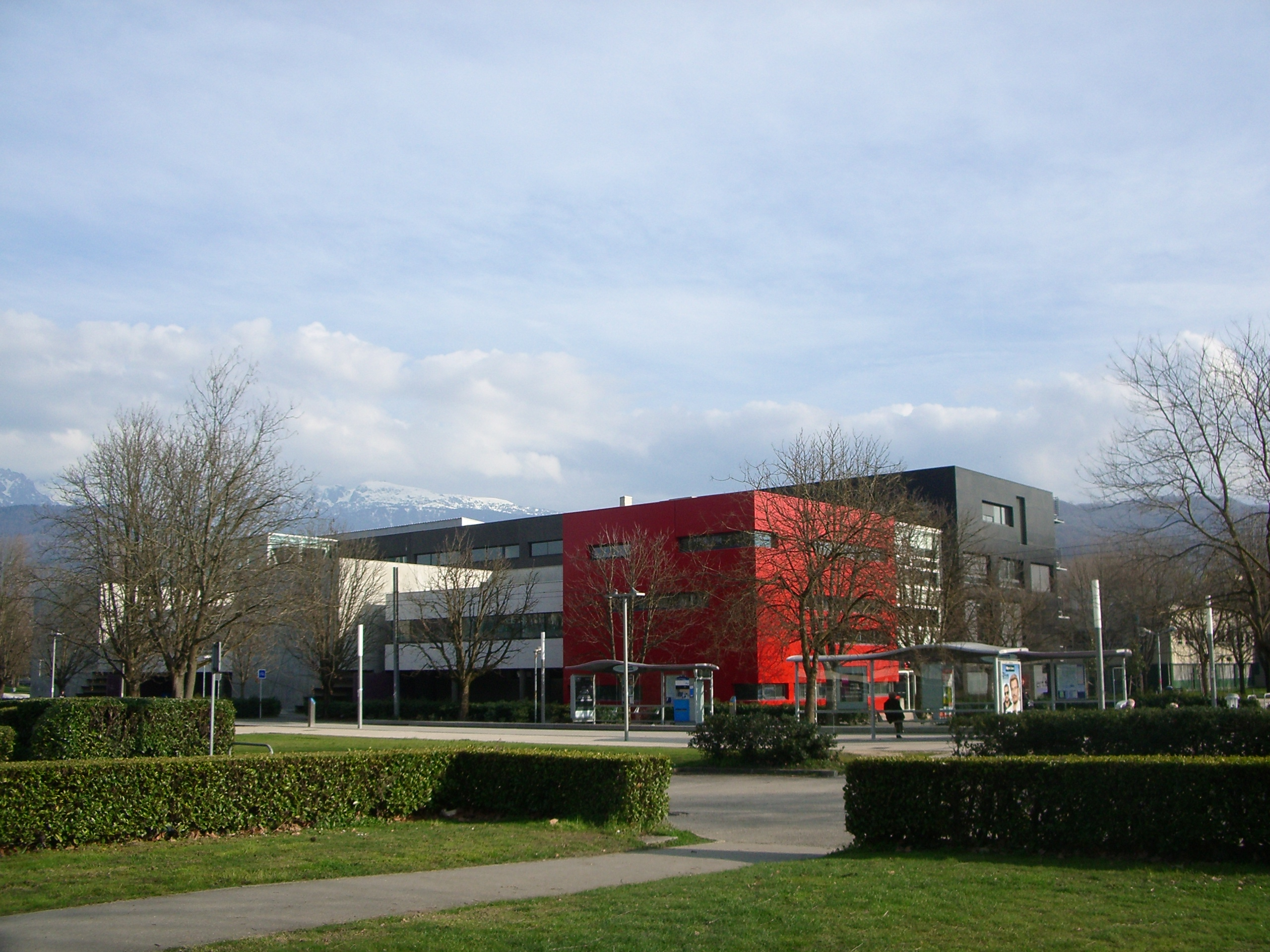 ESA (École Supérieure des Affaires), Grenoble university, Saint-Martin-d'Hères